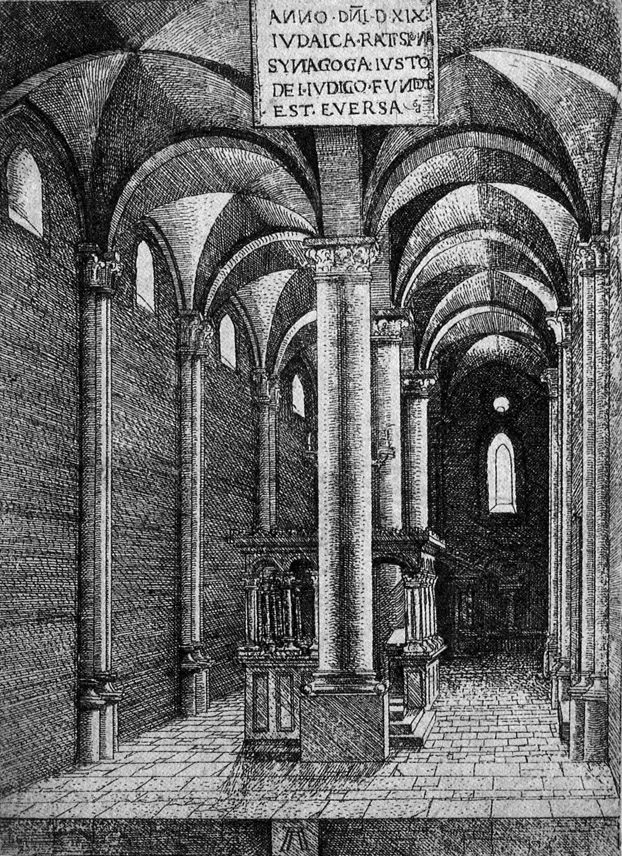 Albrecht Altdorfer - 1519 etching - Interior of Regensburg Synagogue (Berlin, Staatliche Museum)